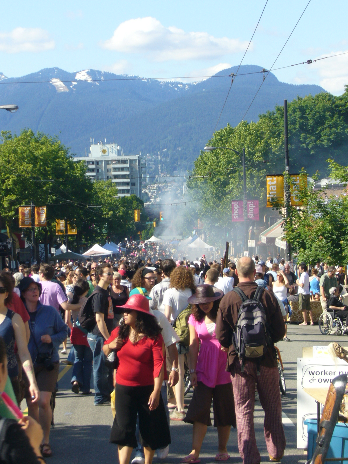 Commercial Drive Days Festival facing north near Grandview Park on Commercial Drive in East Van, Vancouver, BC June 2008